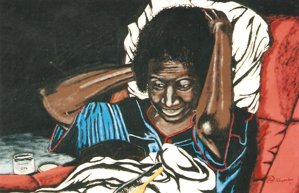 Artist: Larry D. Alexander Source: Larry D. Alexander's Home Files Title: "Aunt Ira Mae" Medium: Acrylic 20"x30"